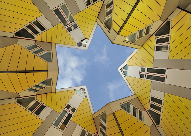 Cube houses in Rotterdam, the Netherlands